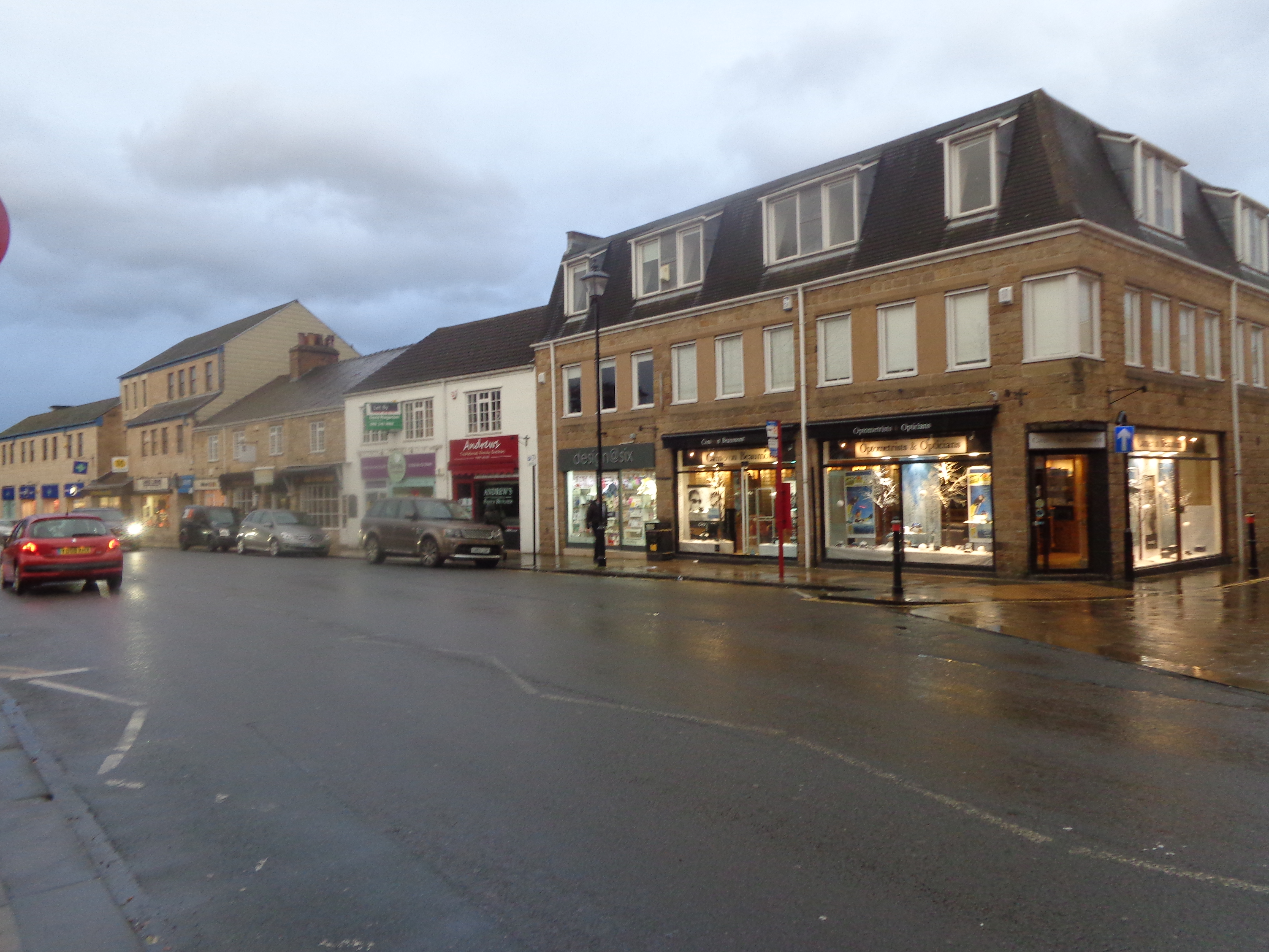 Shops on North Street, Wetherby, West Yorkshire. The building to the far right replaced the administrative buildings for the Teesdale and Metcalf factory which was situated behind on a site now occupied by the Horsefair Shopping Centre. Taken on the afternoon of Saturdaythe 8th of August 2014.